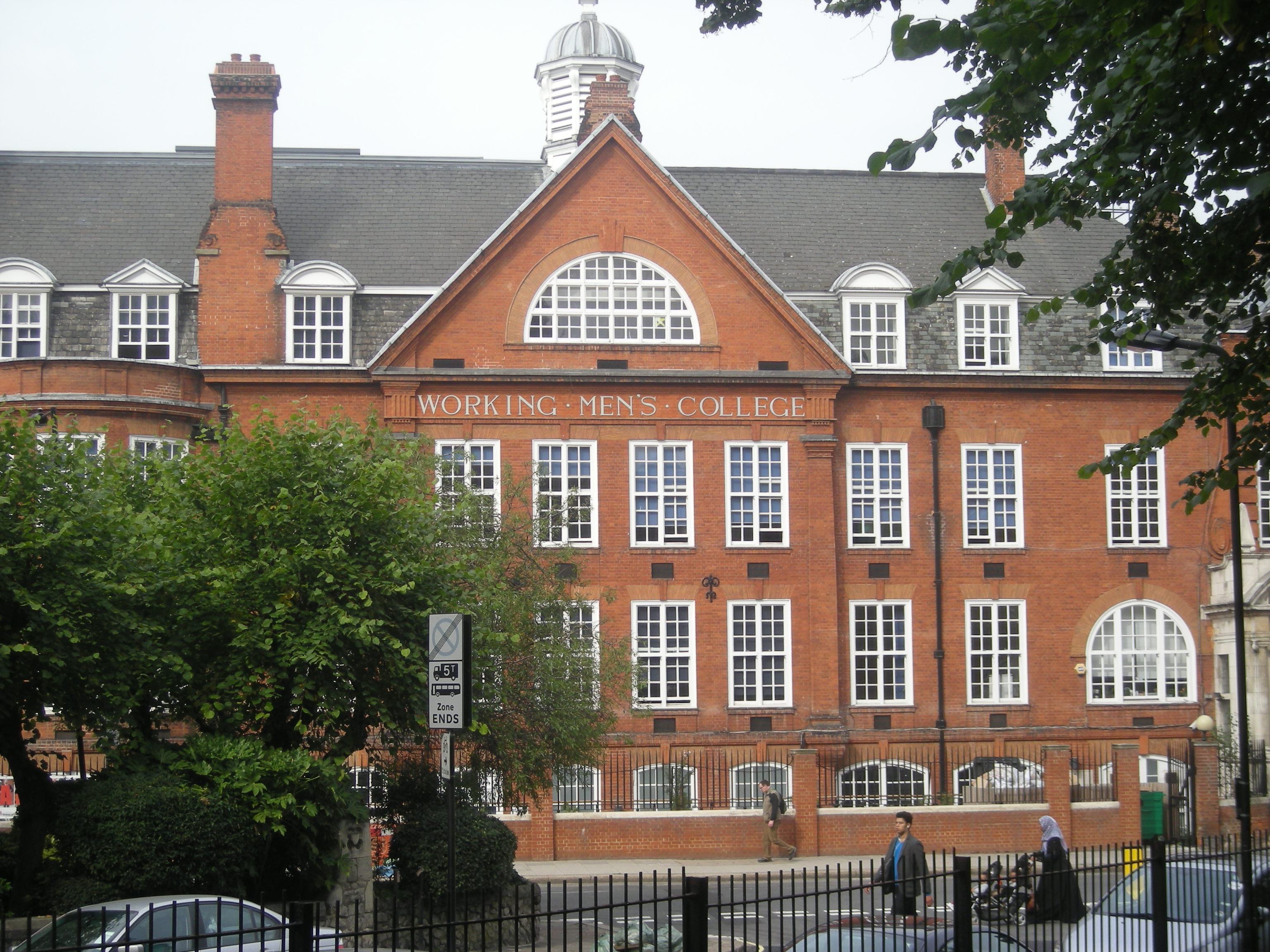 Crowndale Road, London, England